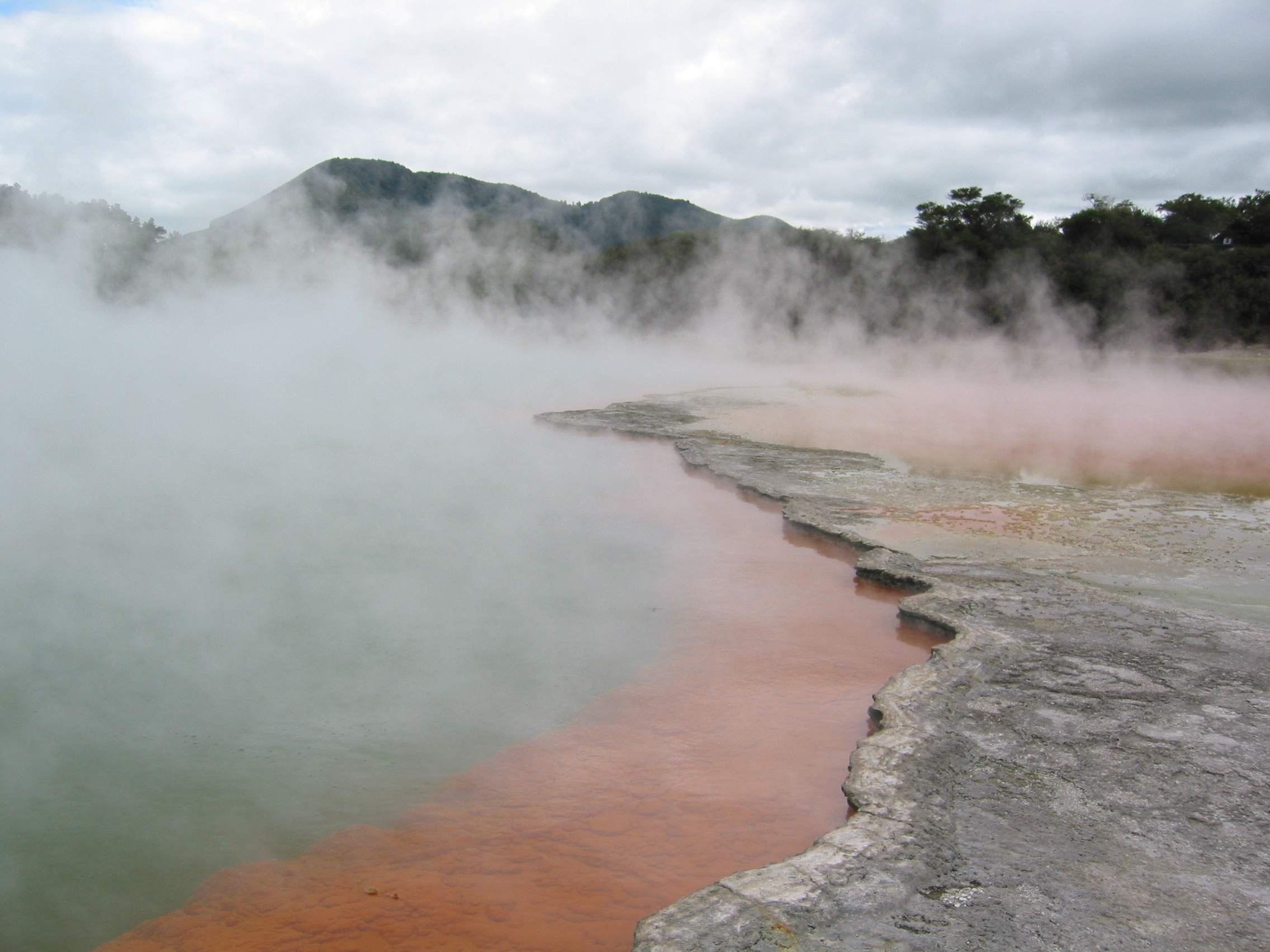 Champagne Pool, Wai-O-Tapu, near Rotorua, New Zealand